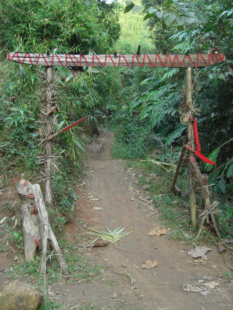 Gate leading to the Akha hilltribe village, that is deemed the origin of Torii of Japan in hypothesis.